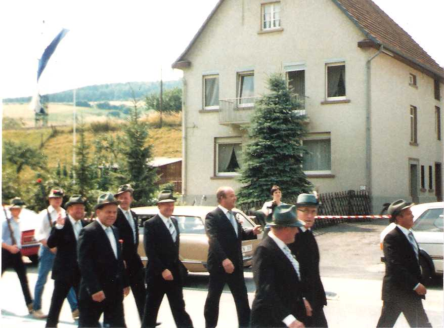 Procession during a Schützenfest in Balve